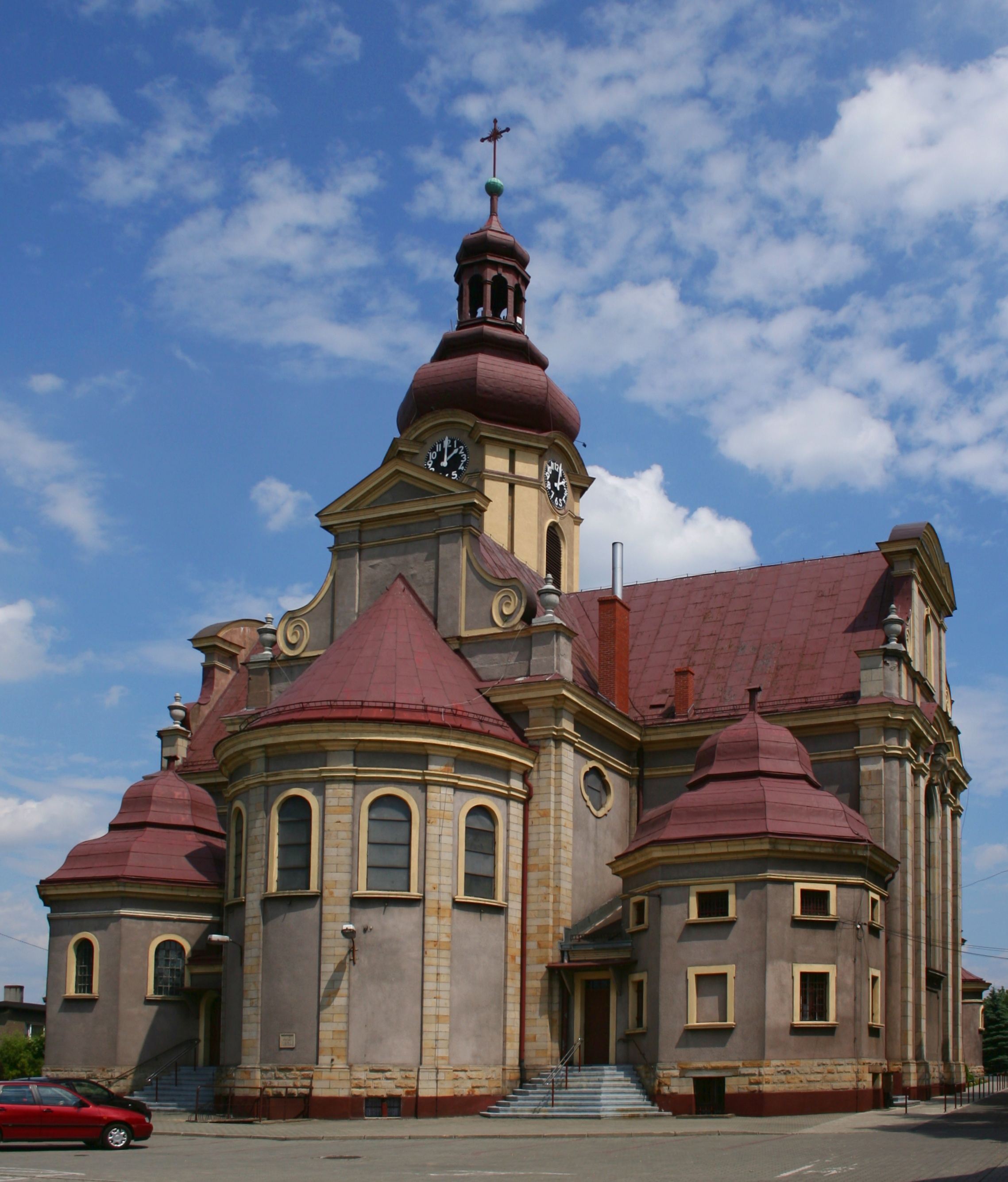 Church of the Saint Heart of Jesus in Rybnik-Boguszowice (Poland)